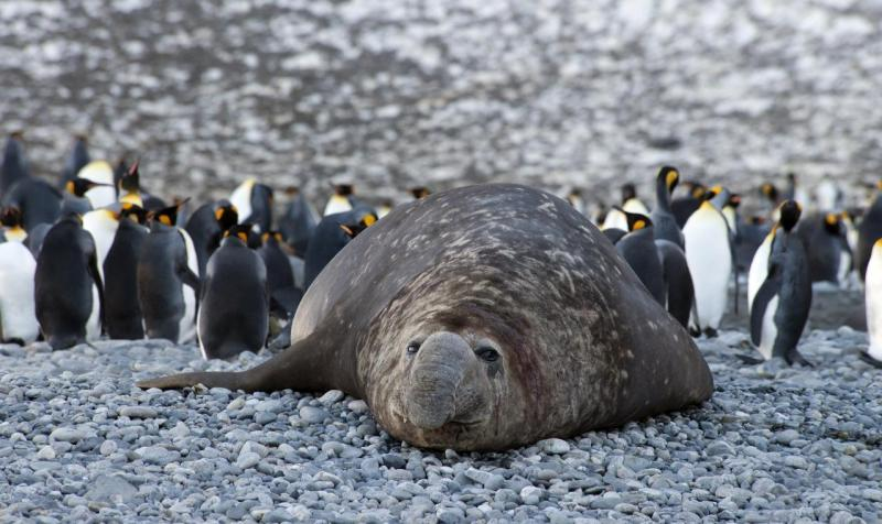 091201_south_georgia_3517